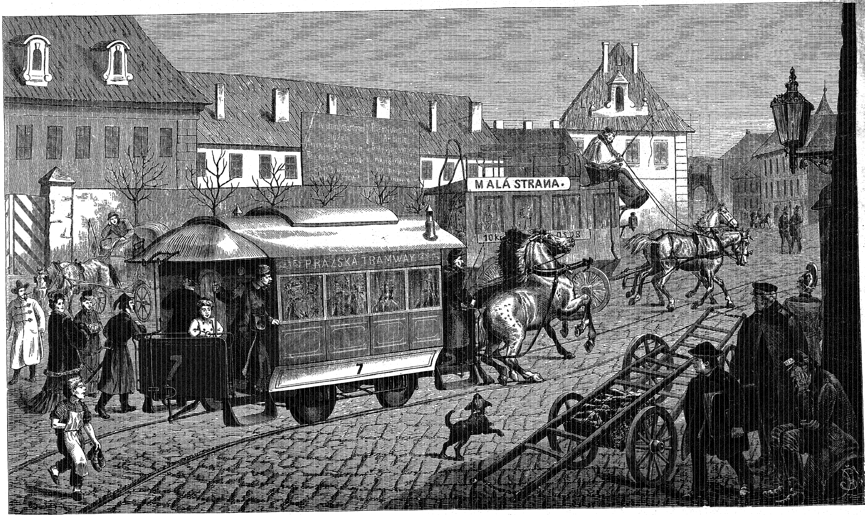 Horsecar (horse-drawn streetcar) in Prague in 1876, operated by Pražská tramway corporation.